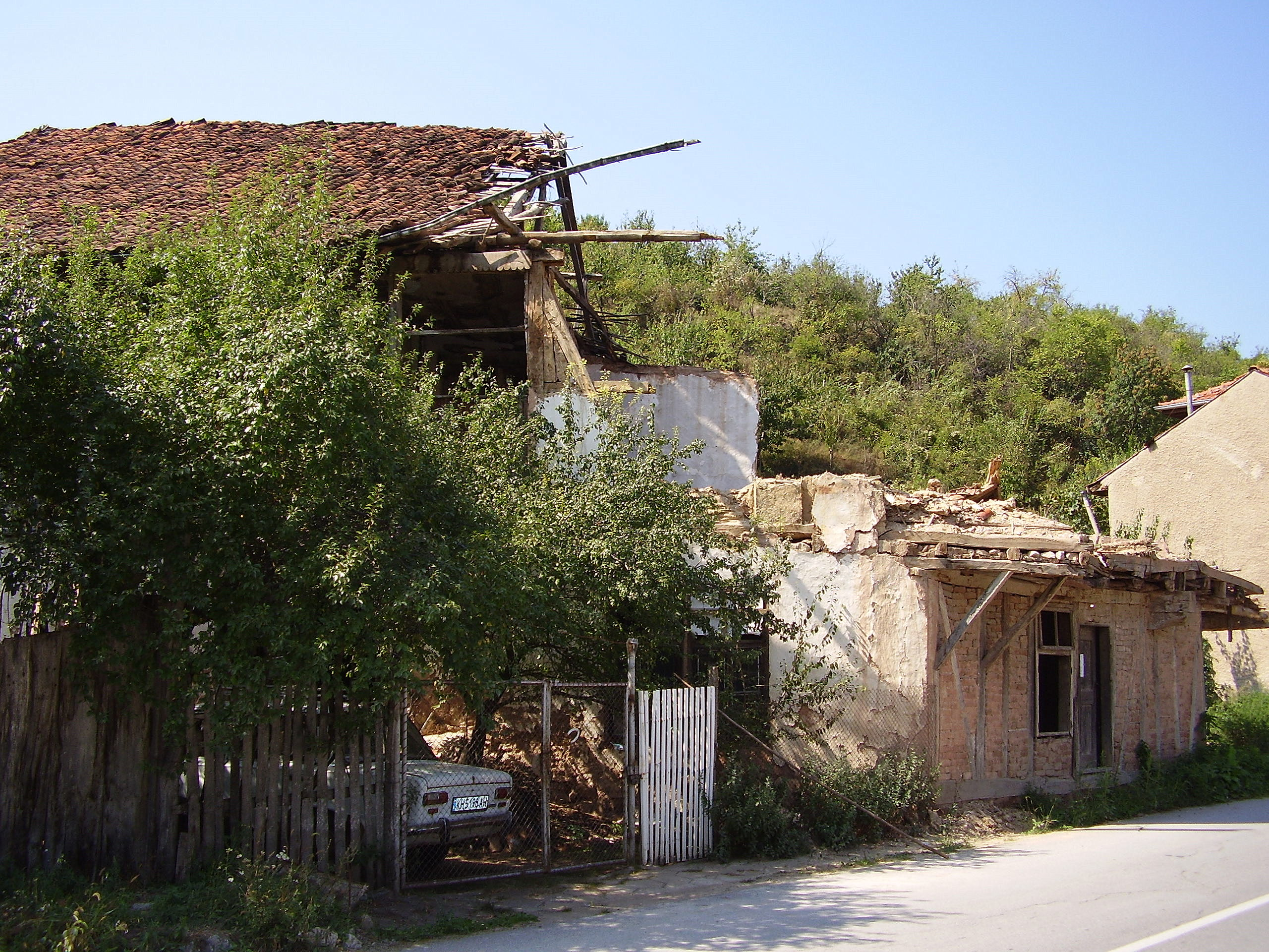 Goranovtsi, Kyustendil District